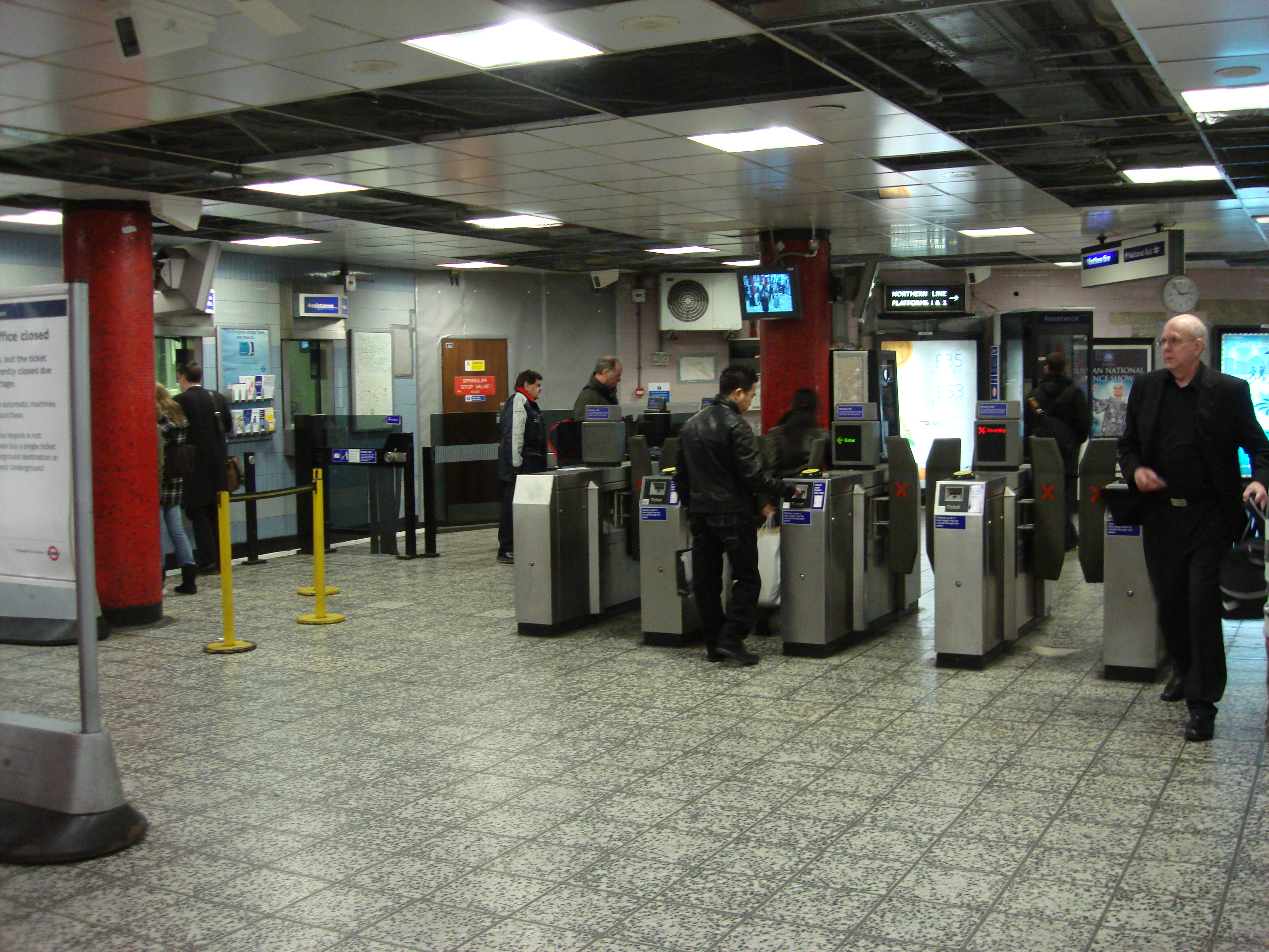 Old Street Underground station, ticket office